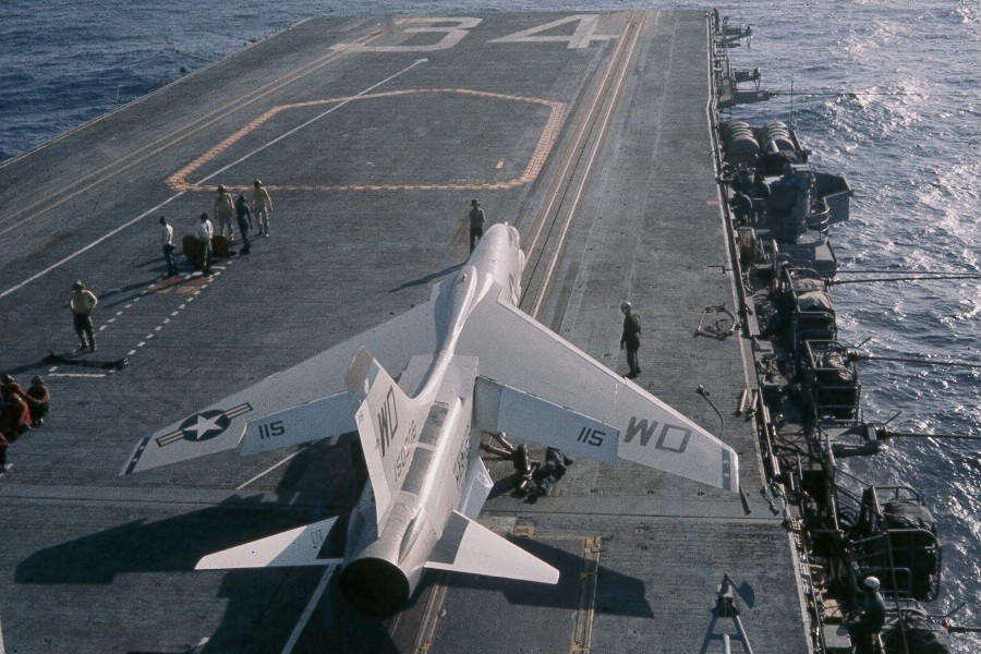 A Vought F-8E Crusader (BuNo. 150306) from Marine fighter squadron VMF(AW)-212 Lancers on the catapult of the aircraft carrier USS Oriskany (CVA-34) in 1965. VMF(AW)-212 was assigned to Attack Carrier Air Wing Sixteen (CVW-16) aboard the Oriskany for a deployment to Vietnam. VMF(AW)-212 kept its tail code "WD", although CVW-16´s aircraft carried the tail code "AH".